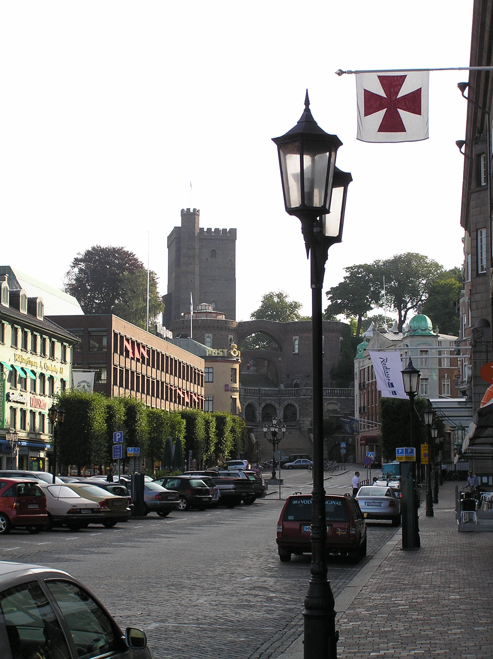 Photo: Bengt Olof Åradsson The residuals of the fortification 'Kärnan'